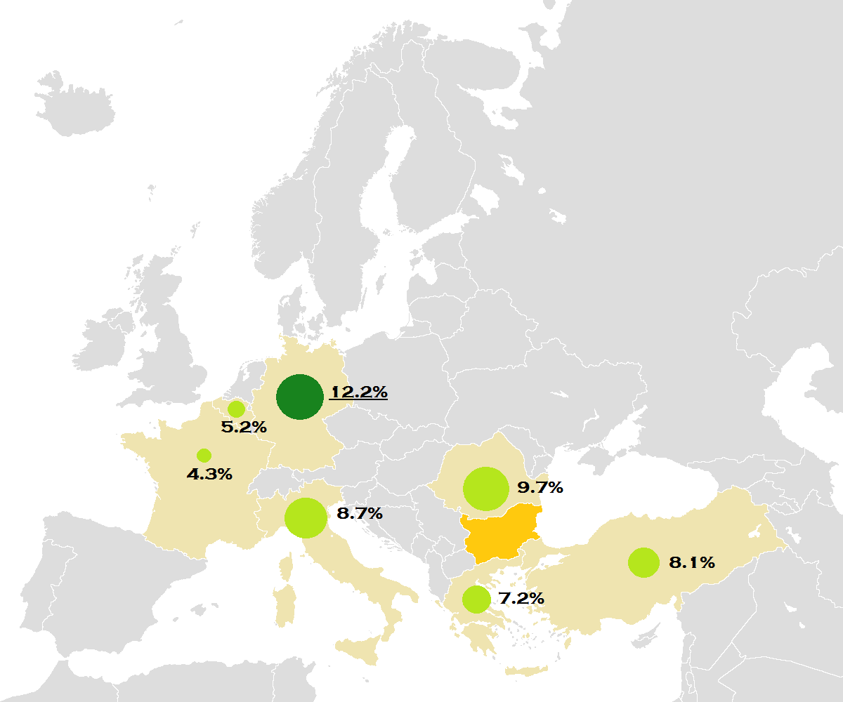 A map of Europe showing Bulgaria (orange) and its largest export partner countries. Source: CIA